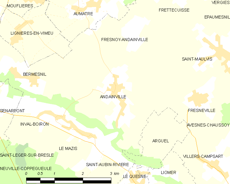 Map of French municipality Andainville